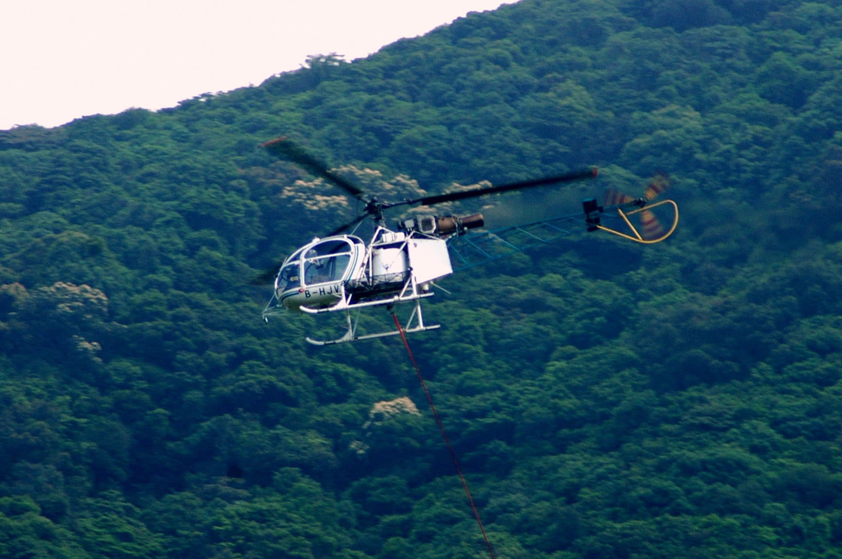 Heliservices Aerospatiale SA315B LAMA B-HJV helicopter